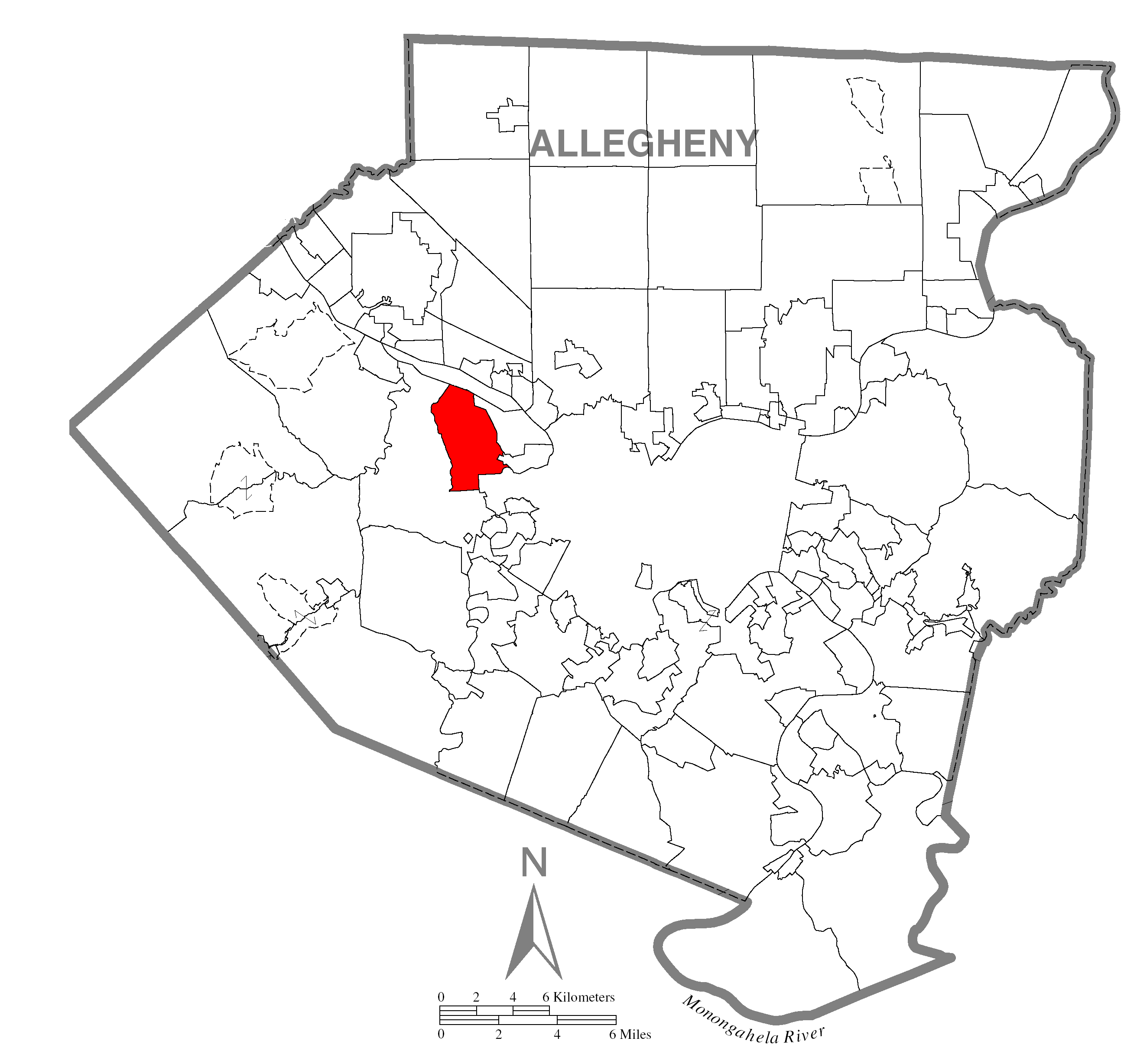 A map of Allegheny County showing Kennedy Township, Pennsylvania (alternate) highlighted on the map.